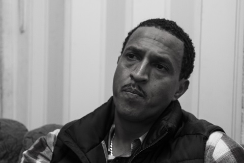 The Brazilian rapper Mano Brown